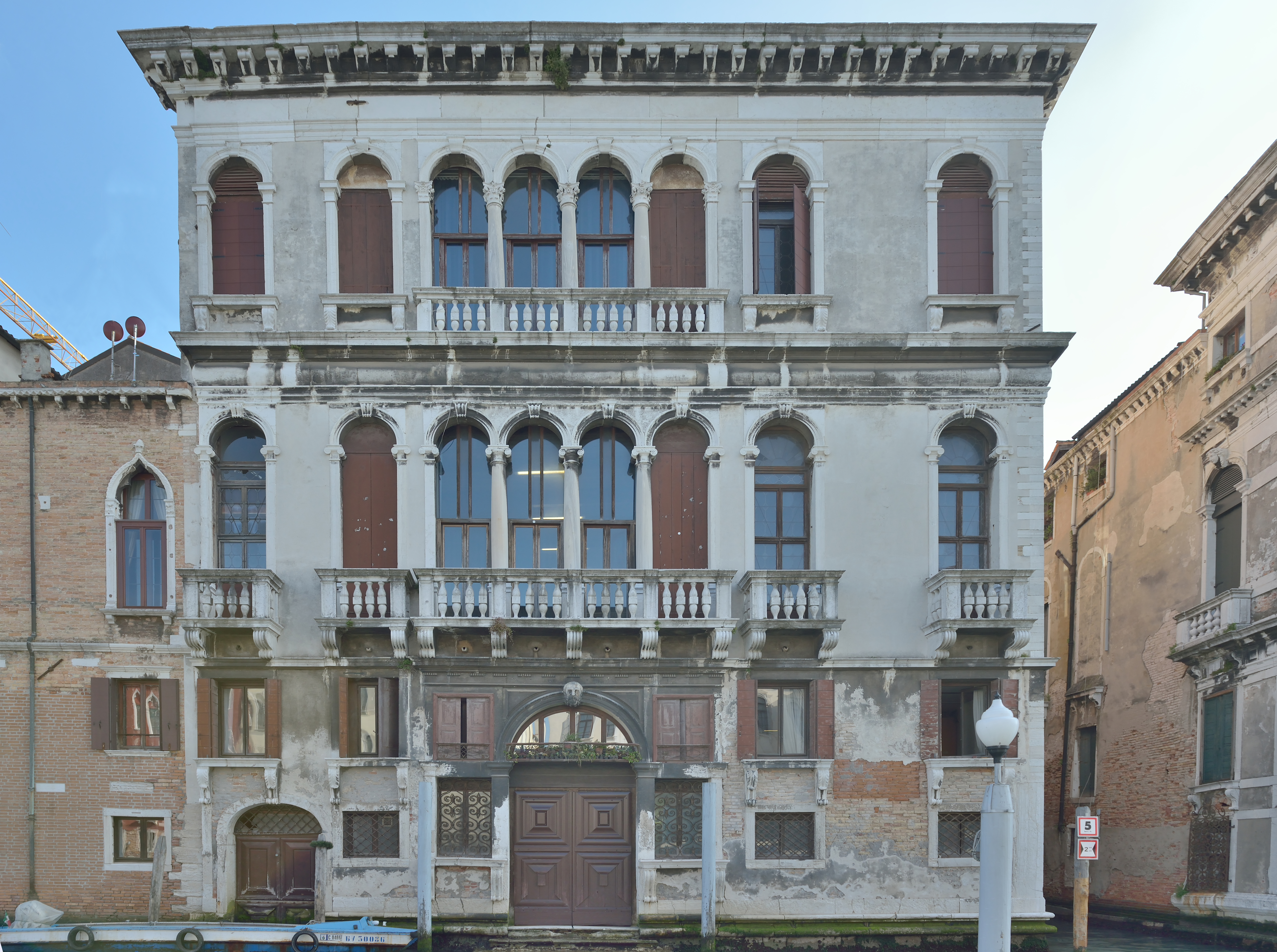 Palace Ca' Tron in Venice. Facade on Grand Canal.